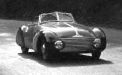 Foreground view of BMW 340-1, a 340-based roadster prototype